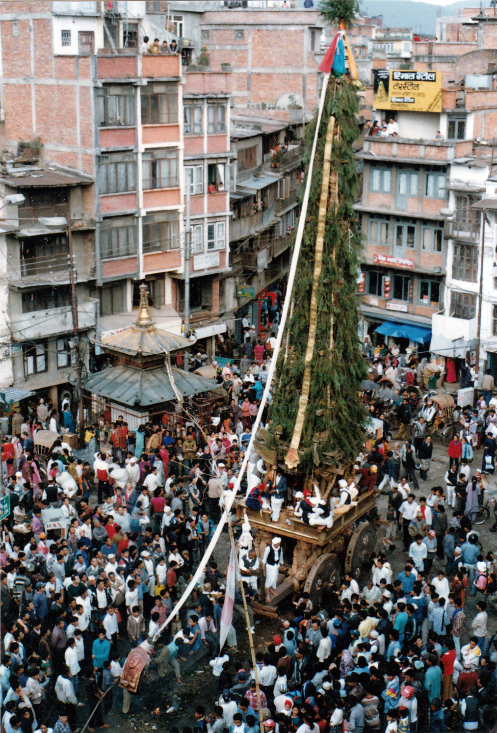 Chariot procession of Jana Baha Dyah (Aryavalokiteswara) at Asan Kathmandu in 1999.